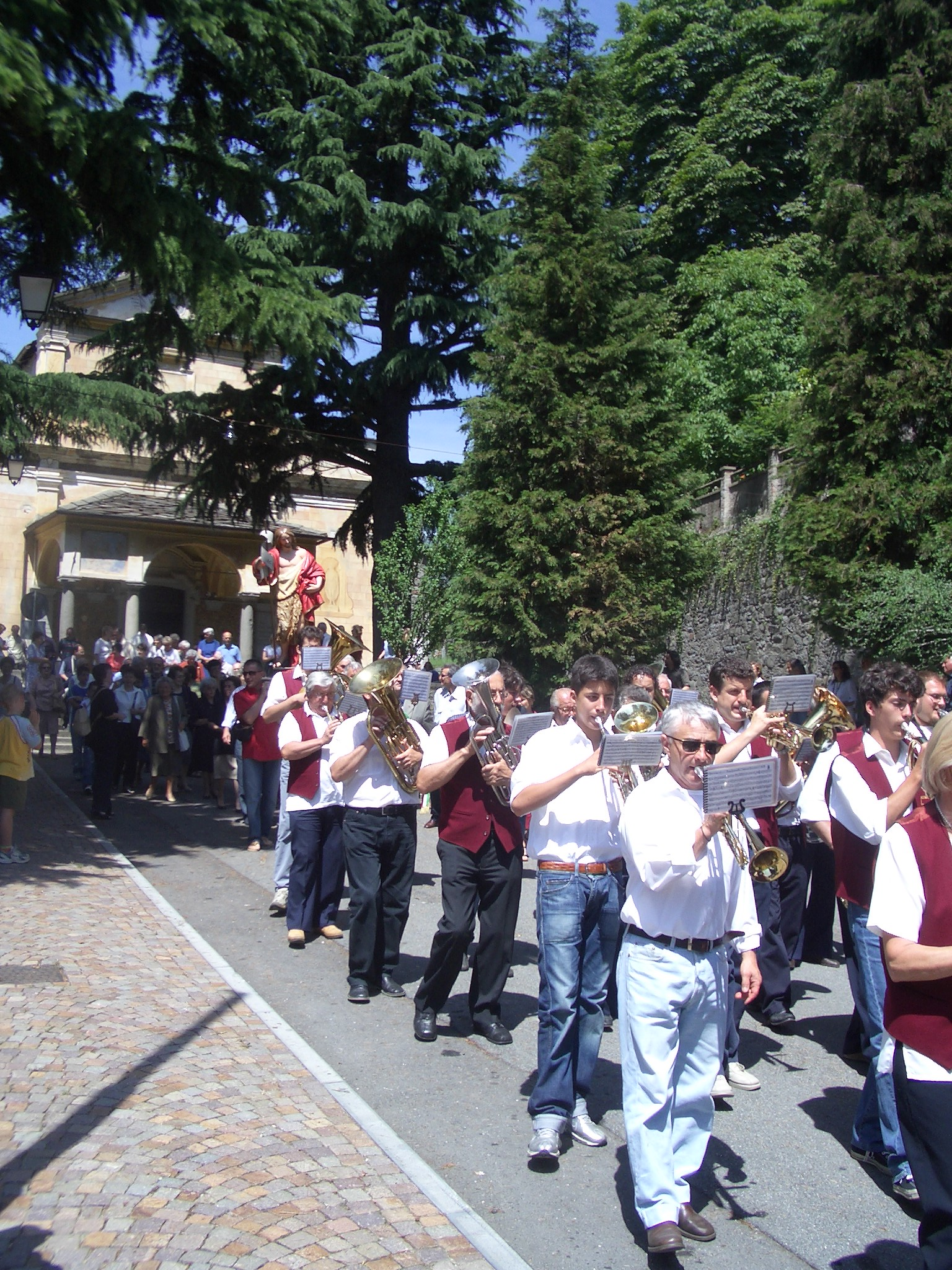 The procession at the feast of St. John the Baptist, patron of the town, Vico Canavese, Torino, Italy